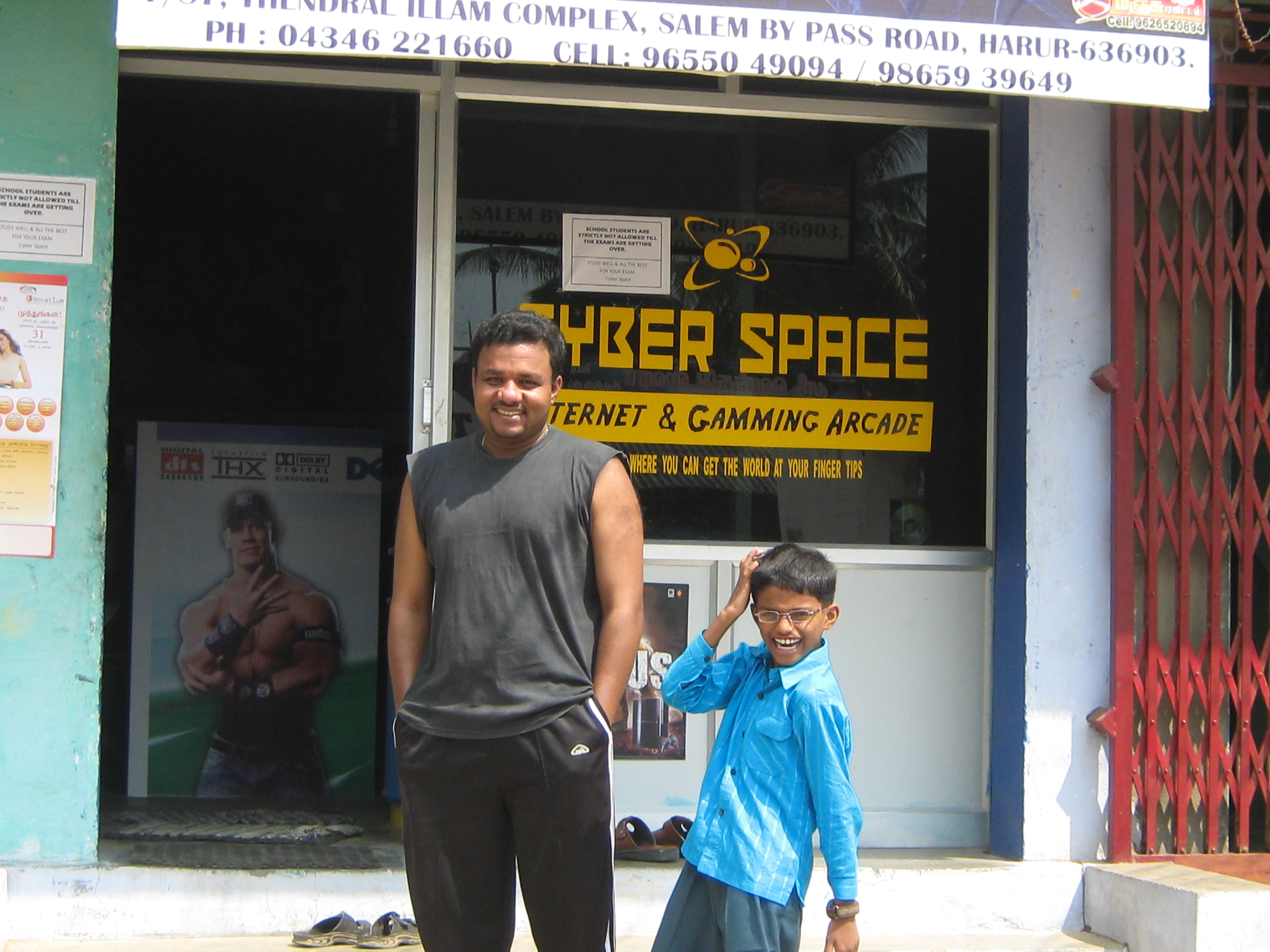 Harur's High-tech Internet and Gaming Arcade